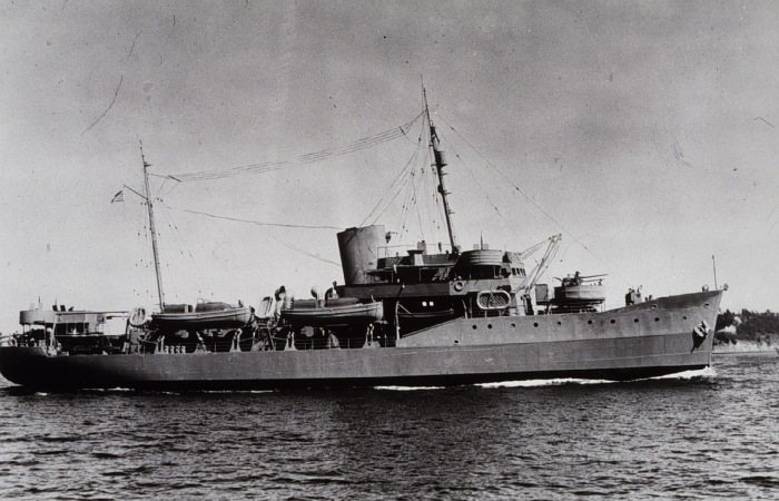 NOAA caption: USS PATHFINDER shortly after launching. Before beginning its Pacific odyssey. Location -- Washington state.